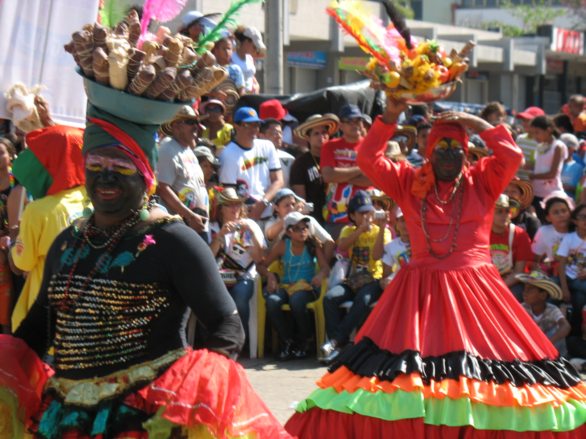 Bollo street vendors - Barranquilla's Carnival